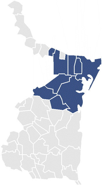 Map of the Third Federal Electoral District of the State of Coahuila, México.